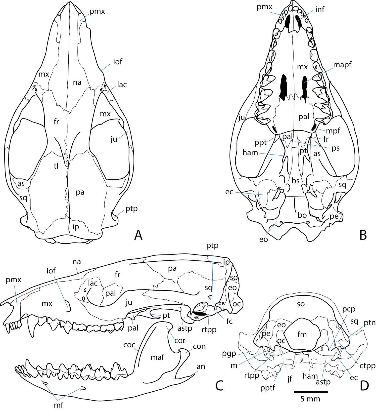 Skull of Monodelphis brevicaudata, modified from Wible (2003). Skull (A–D) and mandible (C) in dorsal (A), ventral (B), left lateral (C), and caudal (D) views. Abbreviations: an angular process; as alisphenoid; astp alisphenoid tympanic process; bo basioccipital; bs basisphenoid; coc coronoid crest; con mandibular condyle; cor coronoid process; ctpp caudal tympanic process of the petrosal; ec ectotympanic; eo exoccipital; fc fenestra cochleae; fm foramen magnum; fr frontal; ham pterygoid hamulus; inf incisive foramen; iof infraorbital foramen; ip interparietal; jf jugular foramen; ju jugal; lac lacrimal; lacf lacrimal foramen; m malleus; maf masseteric fossa; mapf major palatine foramen; mf mental foramen; mpf minor palatine foramen; mx maxilla; na nasal; oc occipital condyle; pa parietal; pal palatine; pcp paracondylar process of the exoccipital; pe petrosal; pmx premaxilla; pgp postglenoid process; ppt postpalatine torus; pptf foramen in the postpalatine torus; ps presphenoid; pt pterygoid; ptn posttemporal foramen; ptp posttympanic process; rtpp rostral tympanic process of the petrosal; so supraoccipital; sq squamosal; tl temporal line.